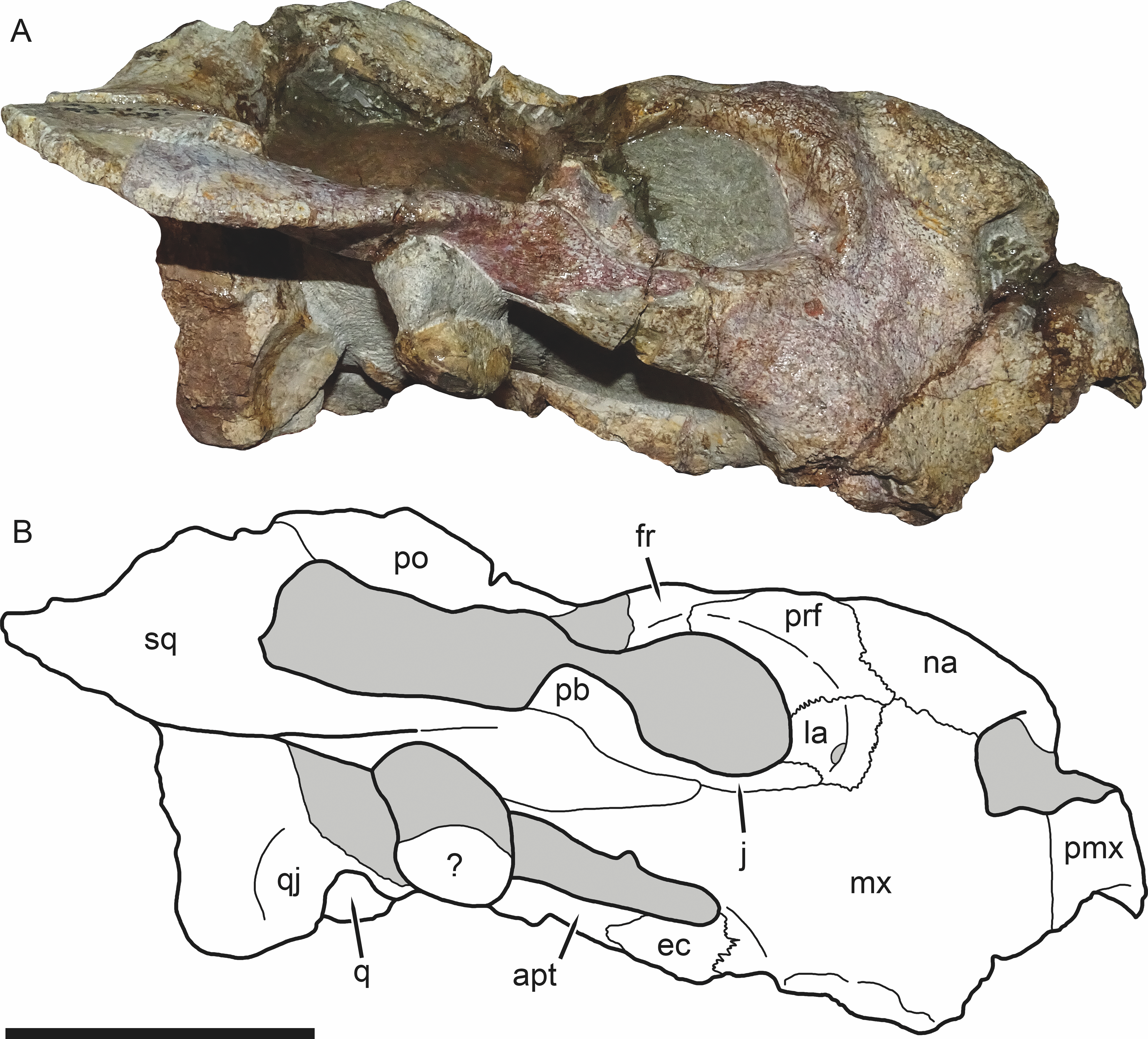 SAM-PK-K11235, holotype of Bulbasaurus phylloxyron gen. et sp. nov., in right lateral view. (A) photograph and (B) interpretive drawing. Abbreviations: ?, unknown bone; apt, anterior pterygoid ramus; ec, ectopterygoid; fr, frontal; la, lacrimal; mx, maxilla; na, nasal; pb, base of postorbital bar; pmx, premaxilla; po, postorbital; prf, prefrontal; q, quadrate; qj, quadratojugal; sq, squamosal. Gray indicates matrix. Scale bar equals 5 cm.